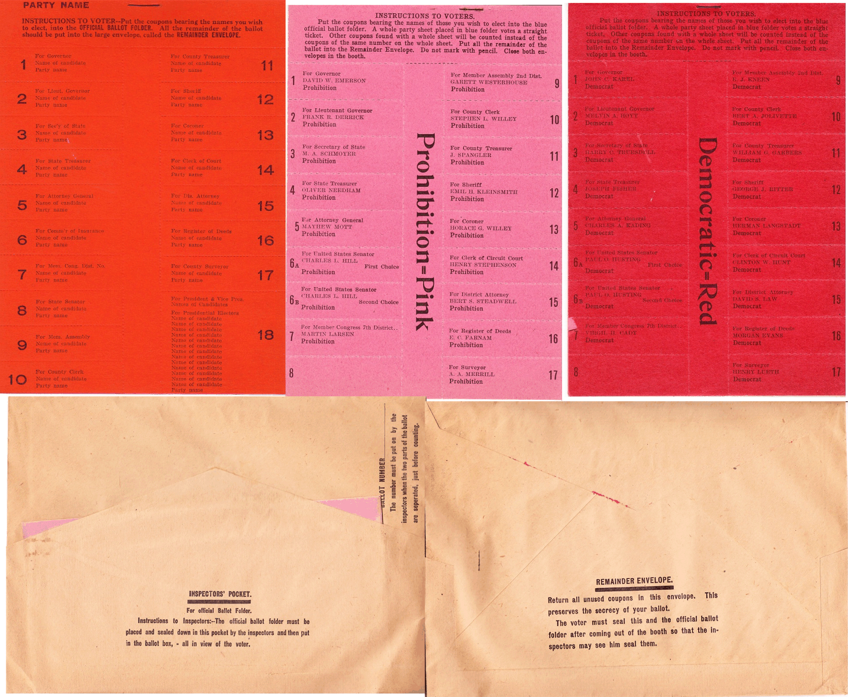 Dunn Ballot, Wisconsin, date ca 1912, article Moncena Dunn